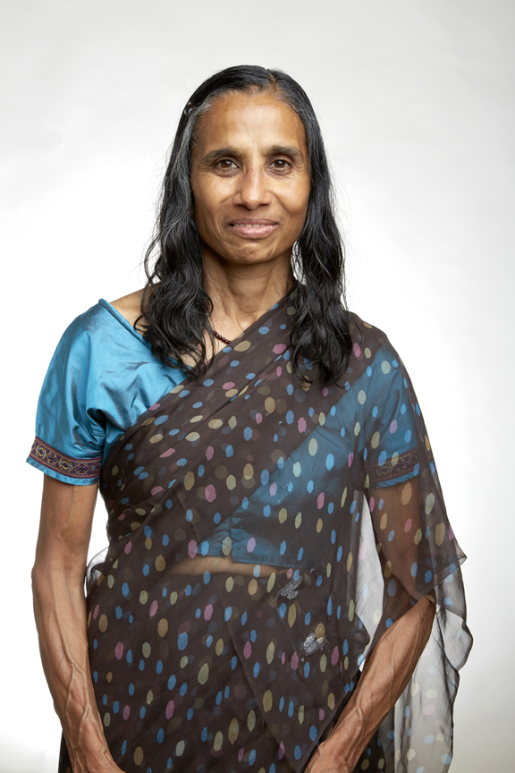 Lalita Ramakrishnan is an American microbiologist who is known for her contributions to the understanding of the pathogenesis of tuberculosis. She serves as a professor of immunology and infectious diseases at the University of Cambridge where she is also a Wellcome Trust Principal Research Fellow and a practicing physician